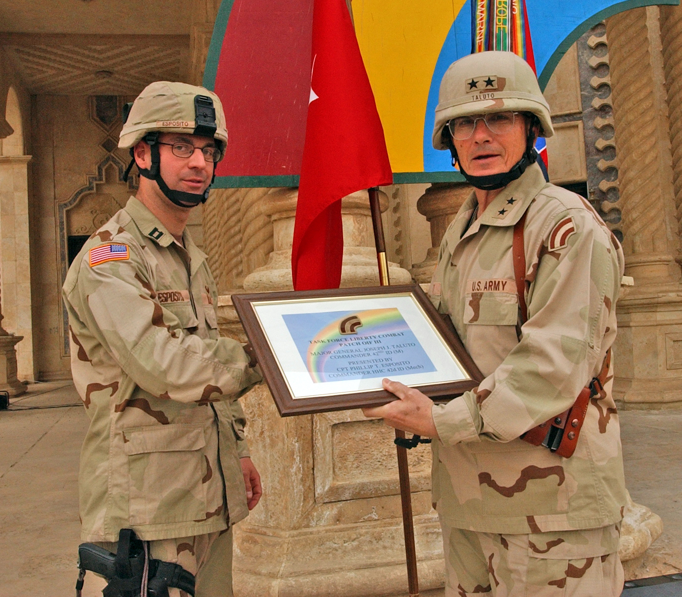 MG Joseph Taluto (R) and CAPT Phillip Esposito at FOB Danger, Tikrit, Iraq on March 3rd, 2005